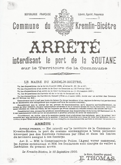 poster published by the City of the Kremlin-Bicêtre (Val de Marne) issuing a decree of September 10, 1900, banning the wearing of the cassock Signed Eugène Thomas, Mayor